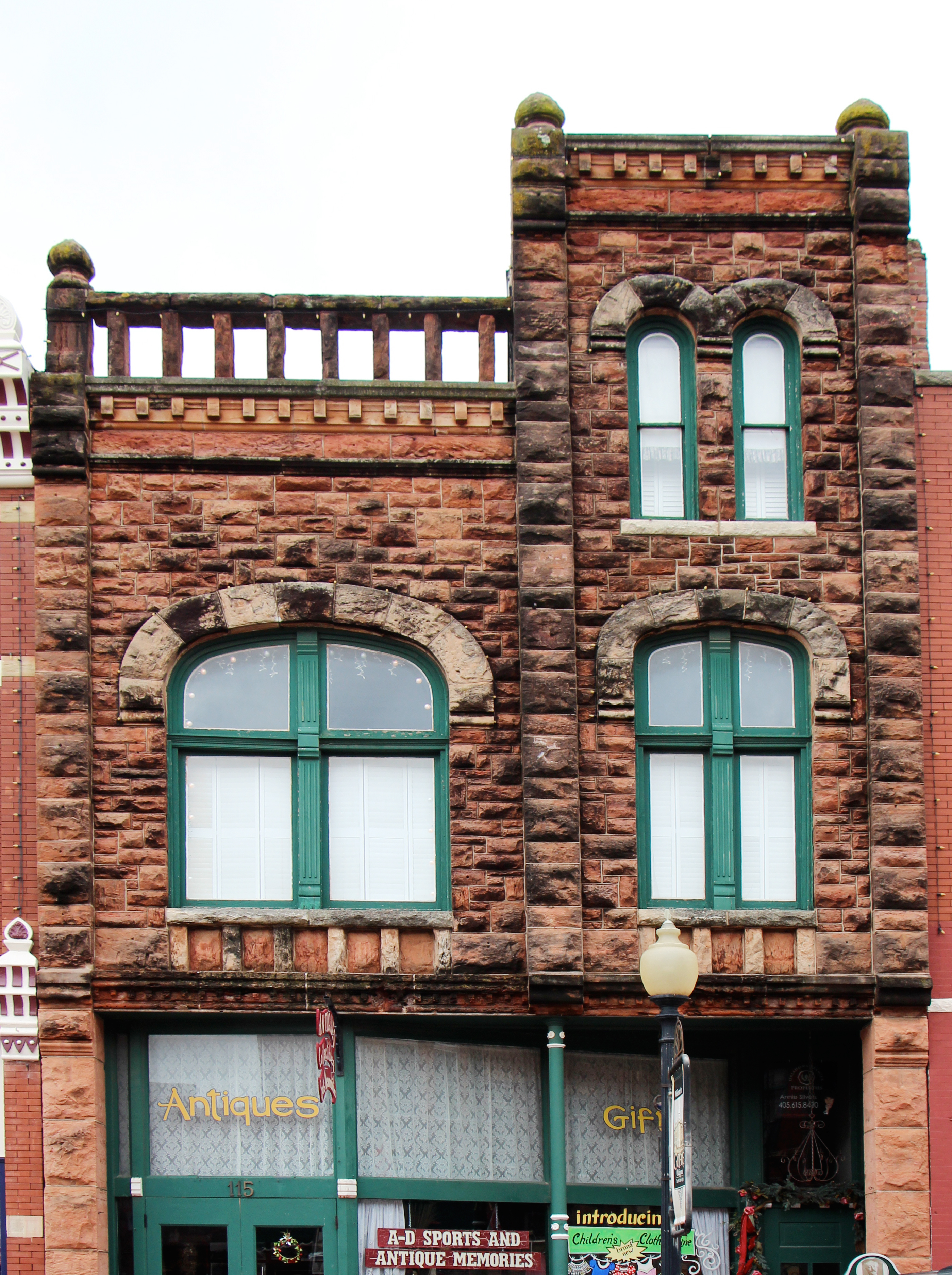 Foucart Building, Guthrie, Oklahoma